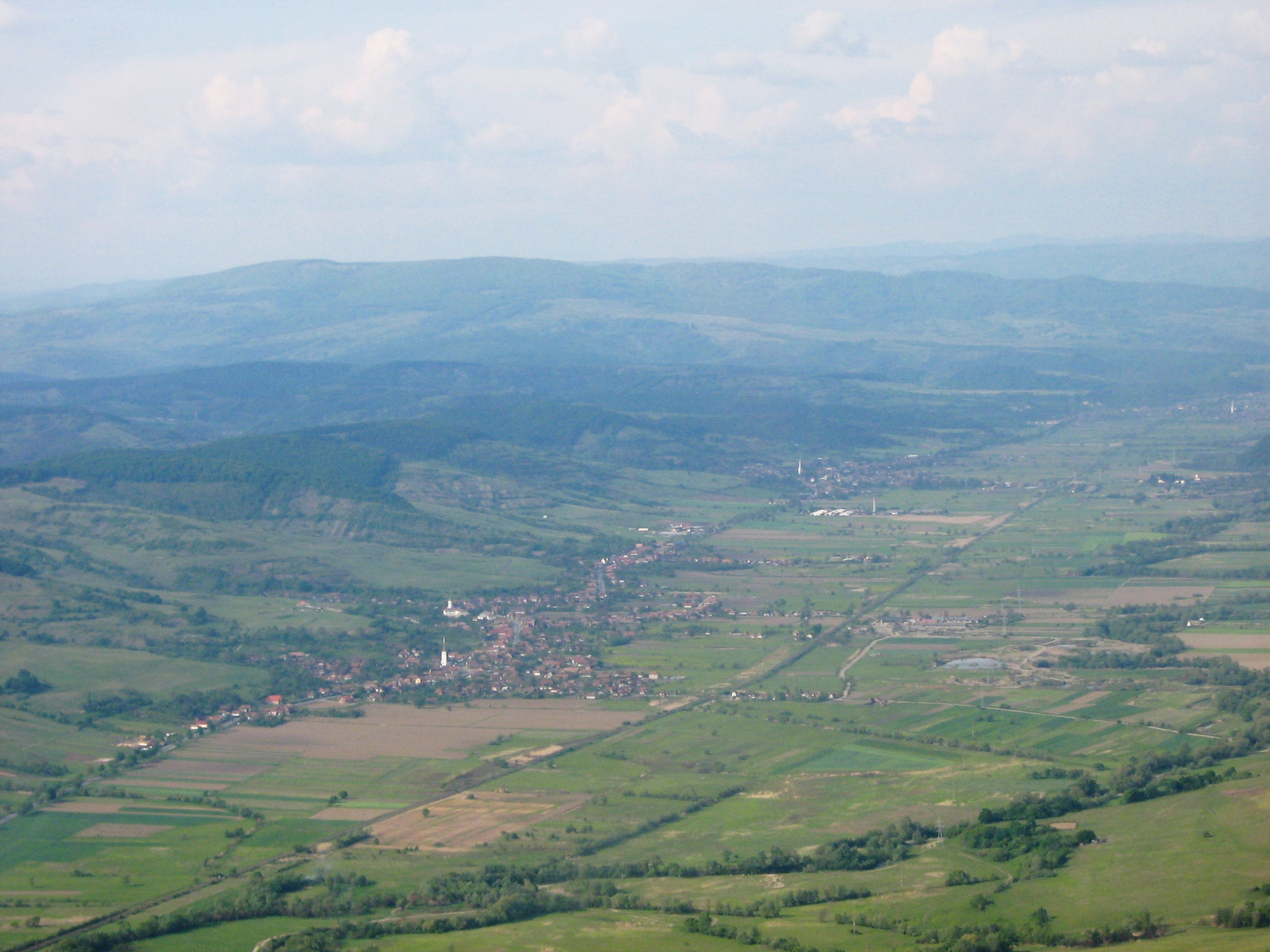 Trei Sate, Mureș. The valley of the Târnava Mică river in Romania